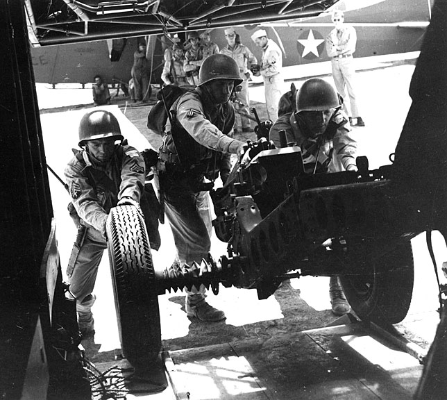 Members of the 504th Parachute Infantry Regiment prepare a weapon for stowage aboard a glider.